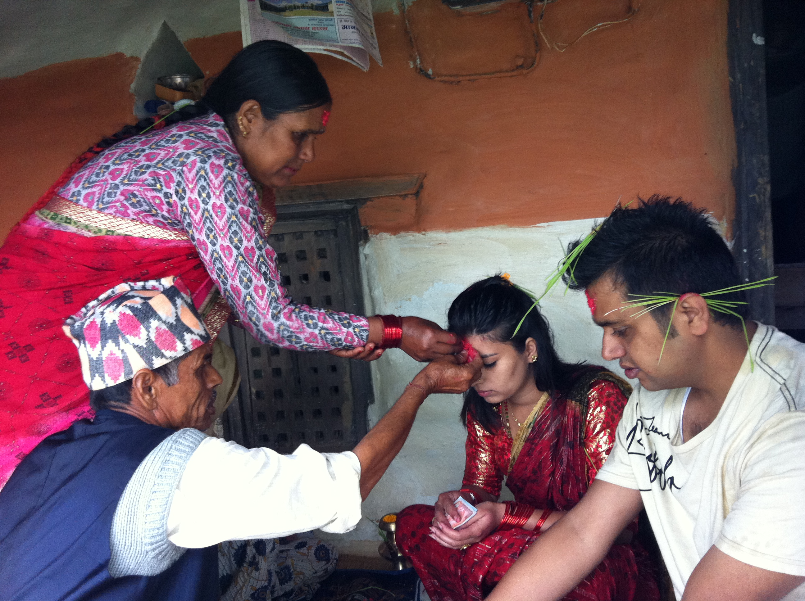 Putting tika from father and mother during Dashain festival.